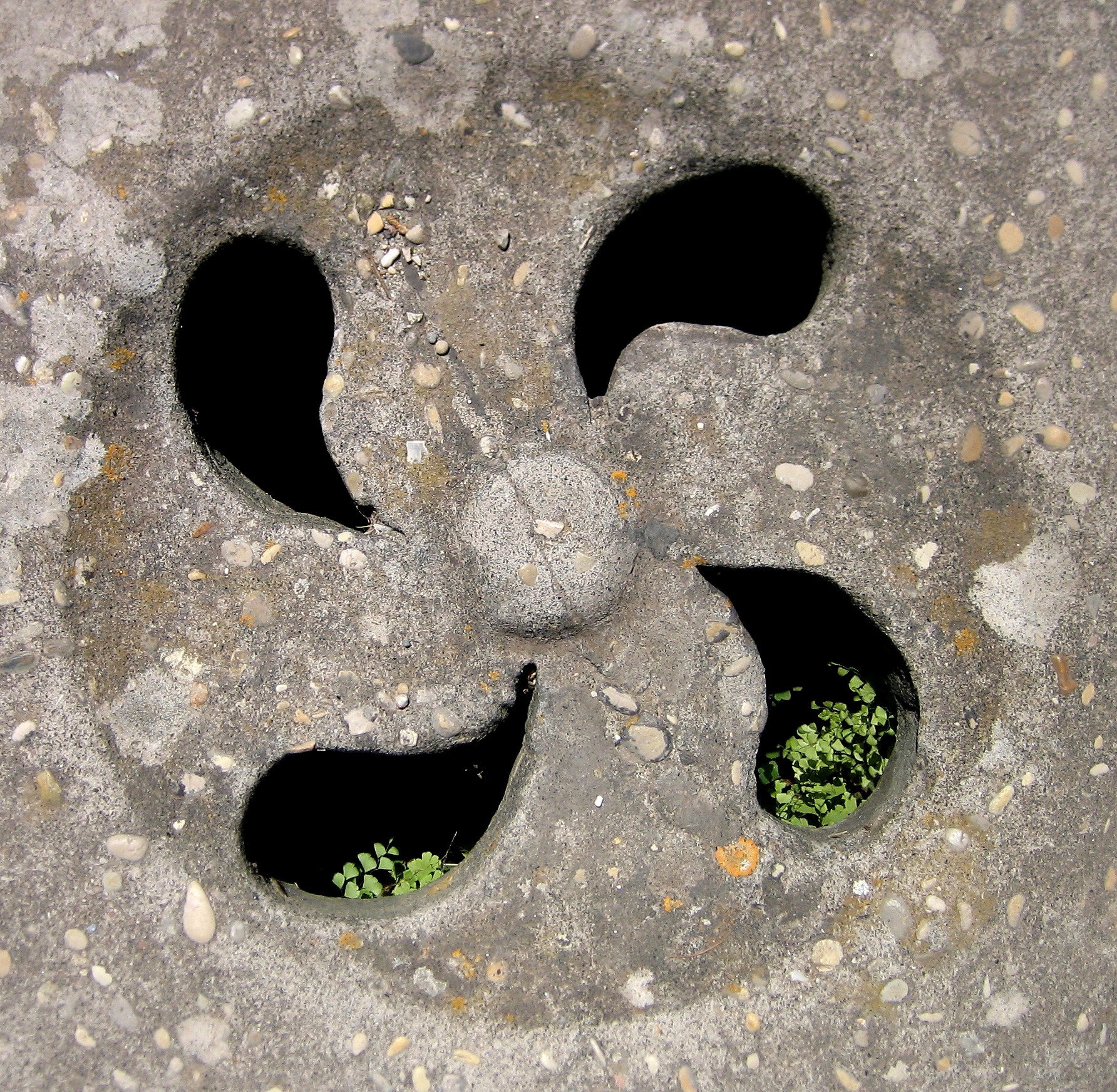 Ancient roman gully hole in Ostia Antica in Italy.